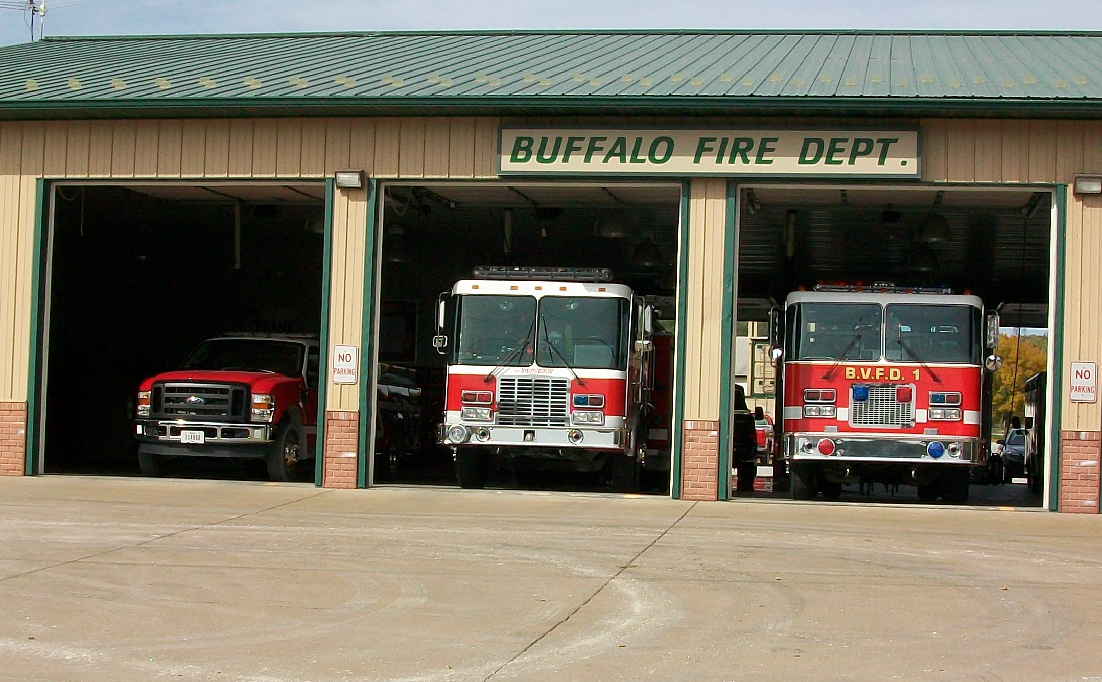 Buffalo, Iowa Fire Department